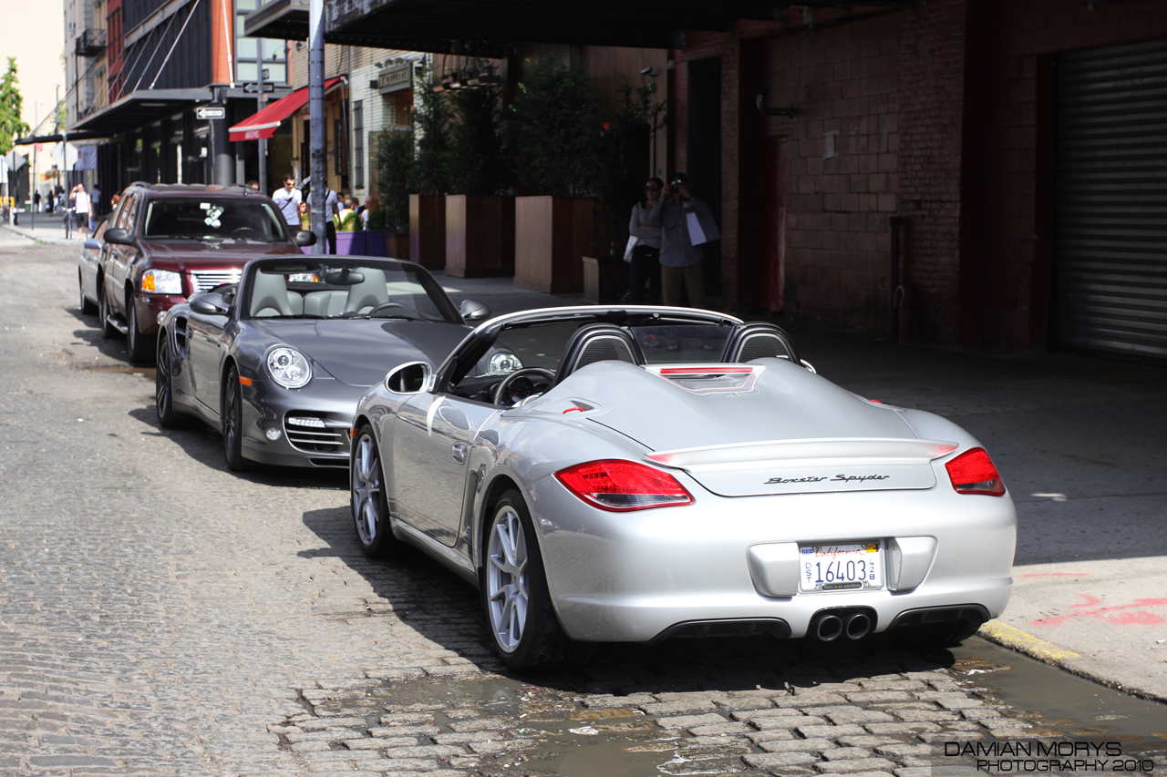 Positioned for the professional photoshoot I mentioned in the previous shot.